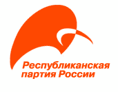 Logo of the Republican Party of Russia